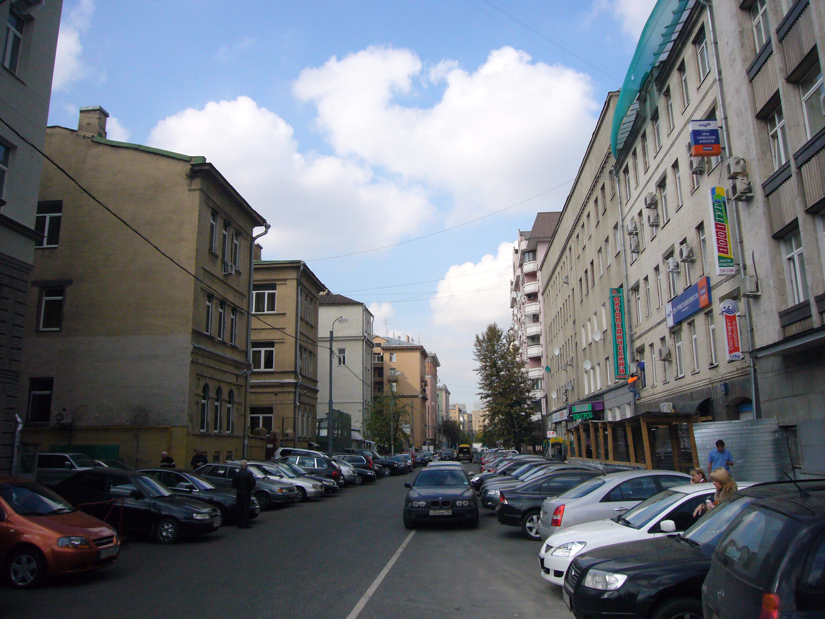 View of the Second Tverskaya-Yamskaya Street from the 1st Tverskoy-Yamskoy Lane, Moscow, Russia